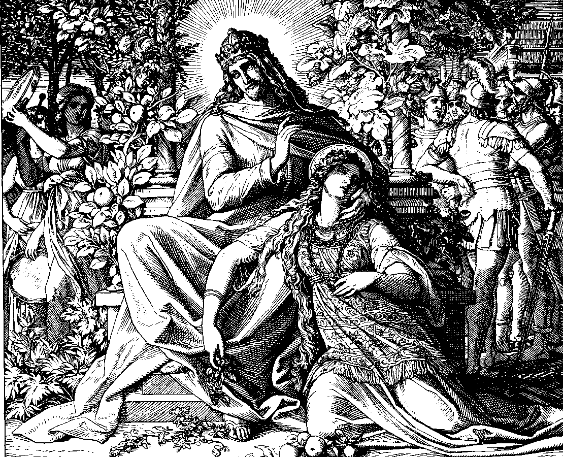 Woodcut for "Die Bibel in Bildern", 1860. Song of Solomon: Rose of Sharon